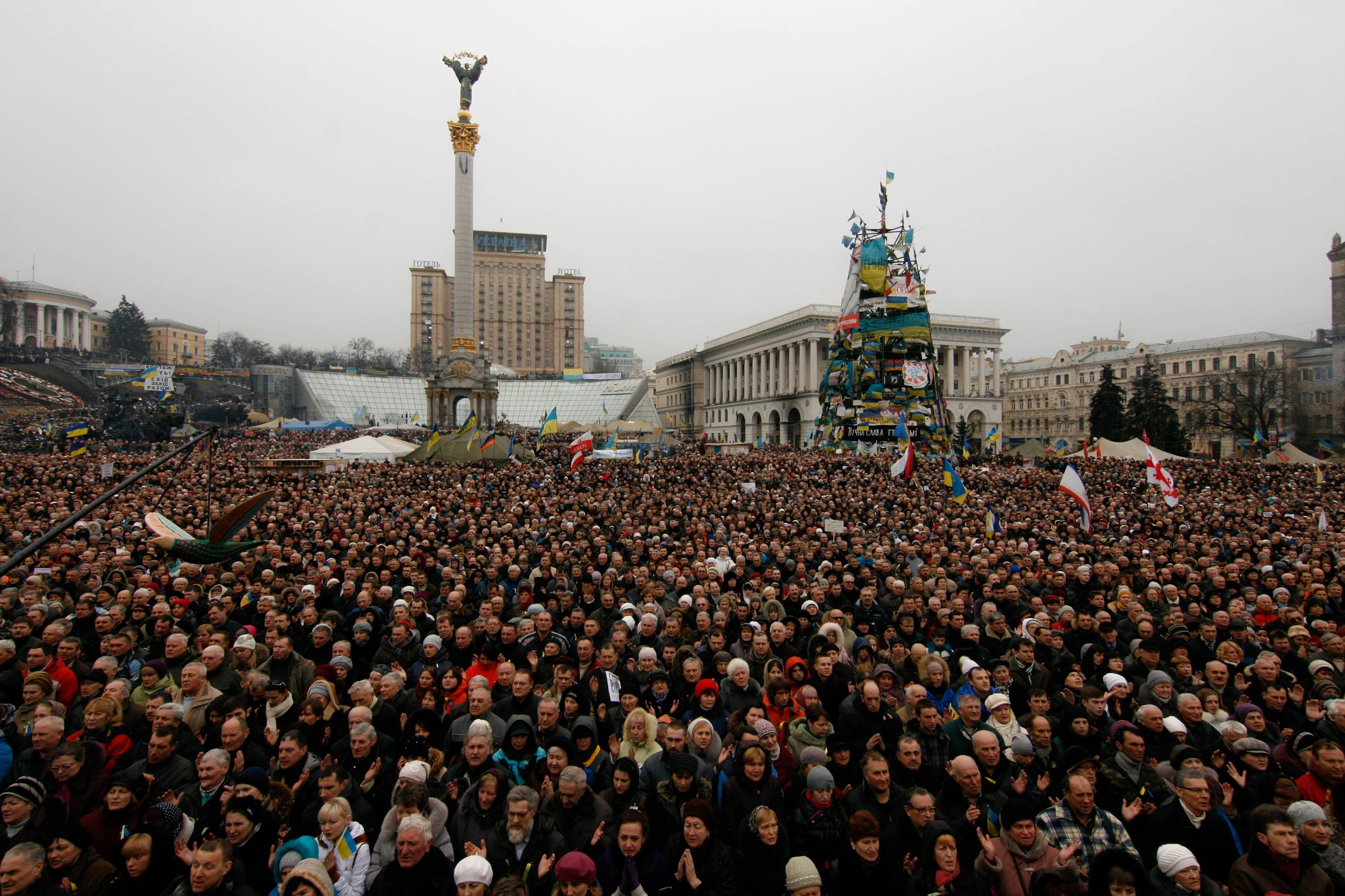 People protesting against Russia's intervention "Crimea is Ukraine"